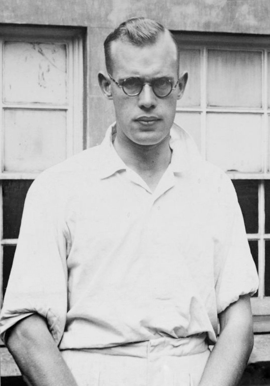 Bill Bowes at Headingley in Leeds, circa April 1932.